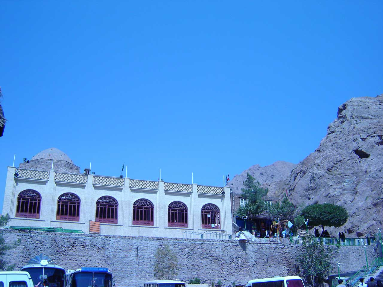 Shrine of Shahr Banu (A.S.) (mother of Imam Zaynul Abideen [a.s]) in Tehran, Iran